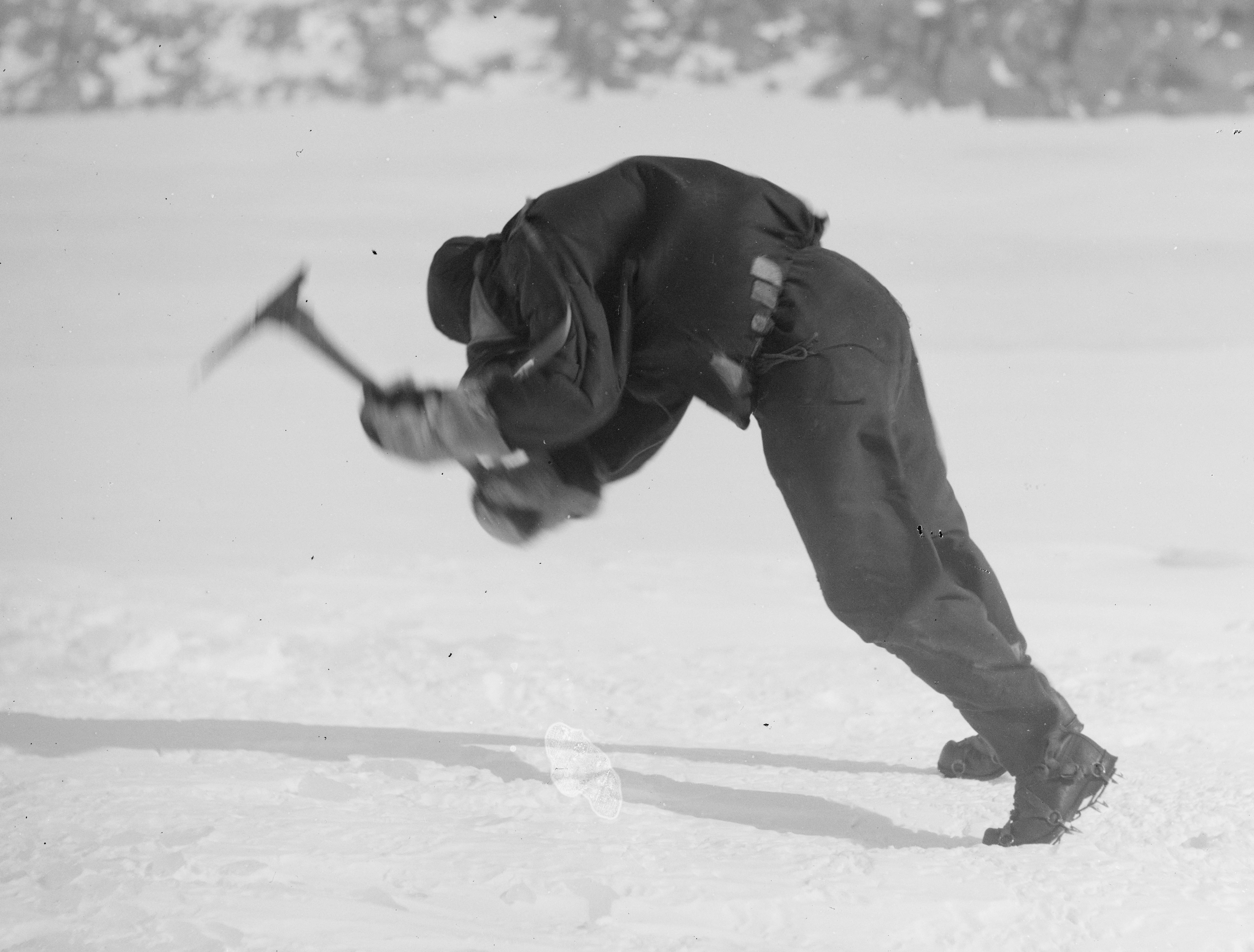 Australasian Antarctic Expedition lead by Douglas Mawson (1911-1914). The caption: LEANING on the wind. The figure is actually leaning on a constant 100 miles per hour wind while picking ice for culinary purposes. The text in the cropped-out half of the image of the paper: WITH SHACKLETON TO THE ANTARCTICPhotography by Captain Frank Hurley O.B.E.A KODAK PRESENTATION